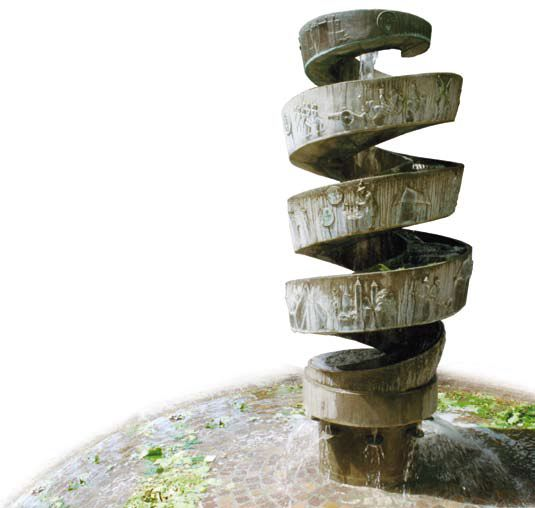 Der Historienbrunnen in der Fußgängerzone in Bergheim